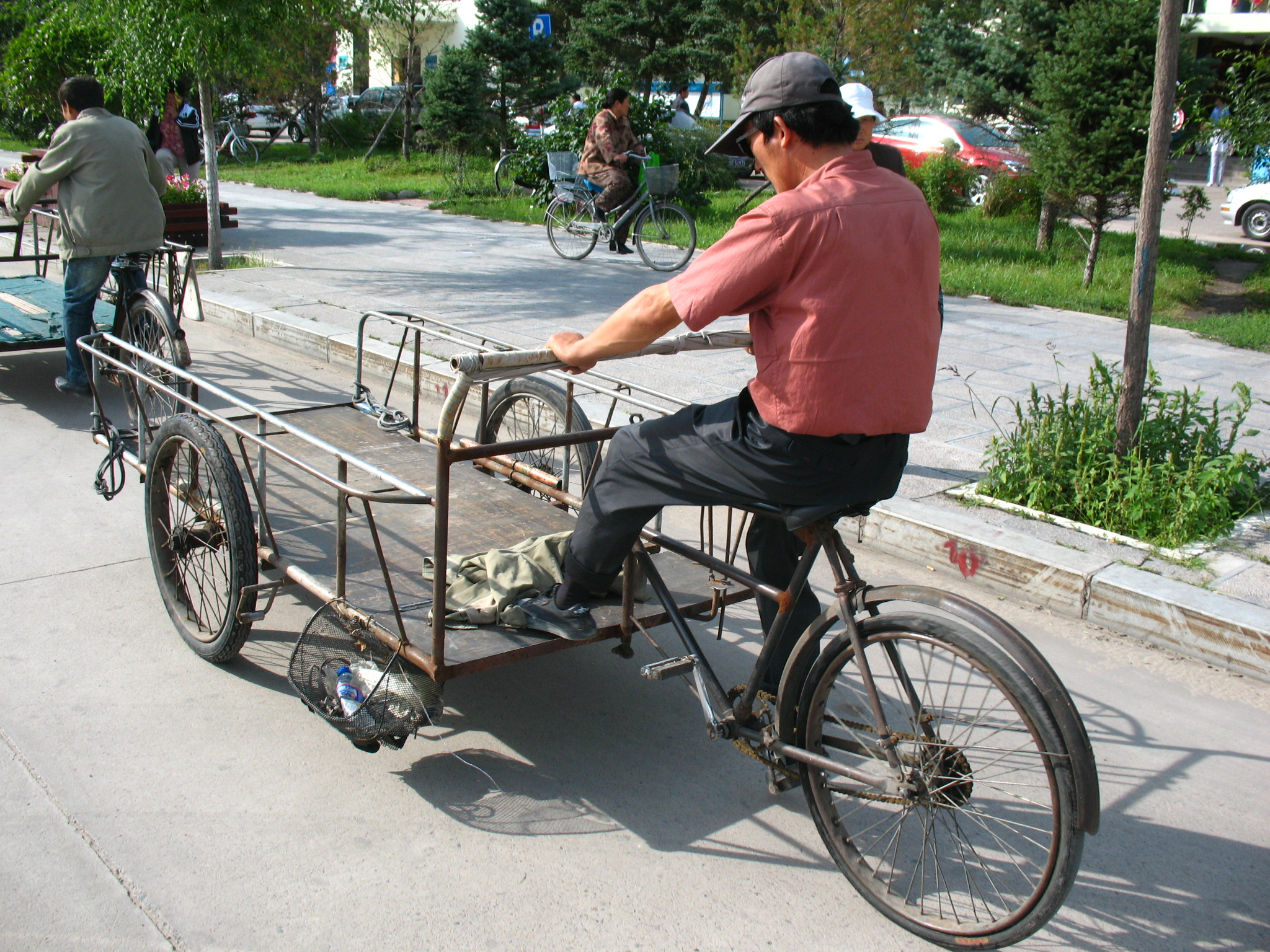 Tricycles in Hailar